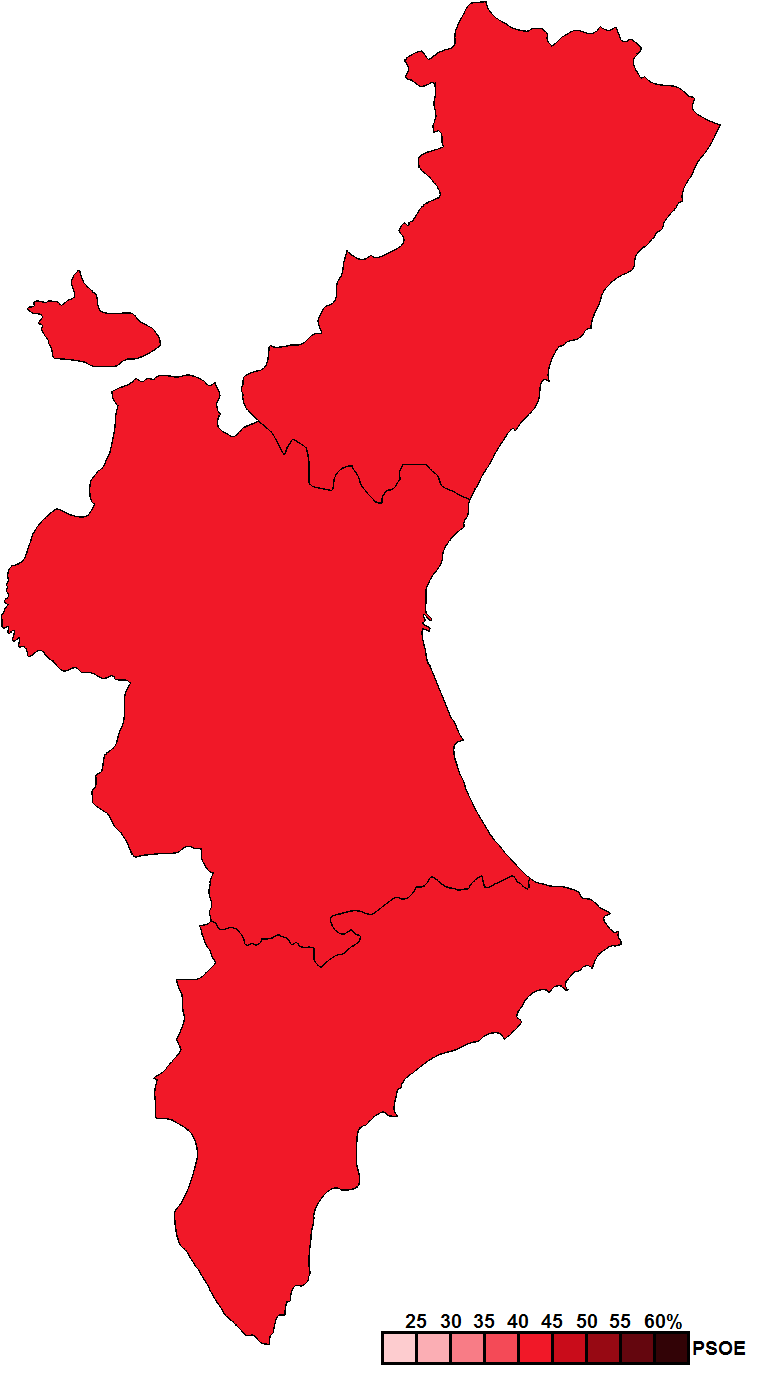 Provincial results for the 1987 Valencian regional election.